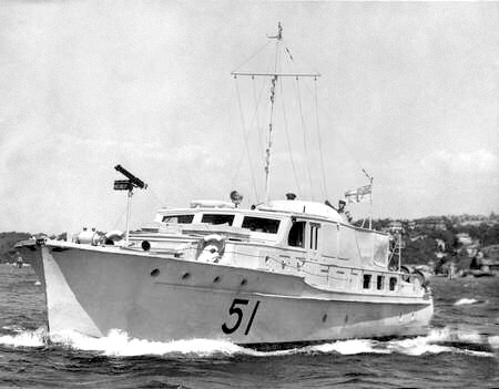 HMAS Yaromma in Sydney, 15 February 1944